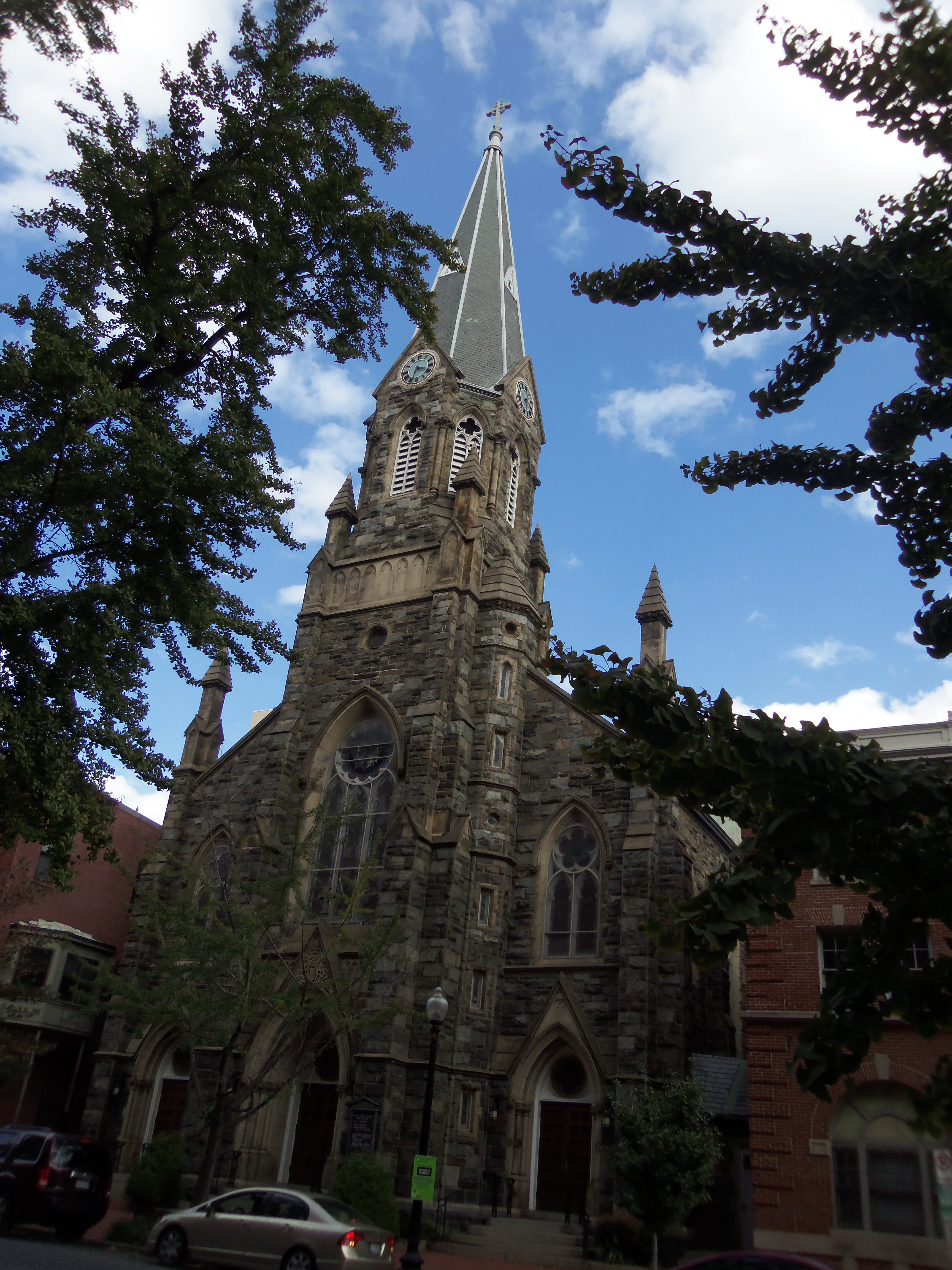 St. Mary Mother of God Catholic Church in Washington, DC